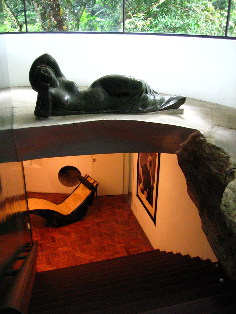 Interior of Casa das Canoas - São Conrado - Rio de Janeiro - Brazil